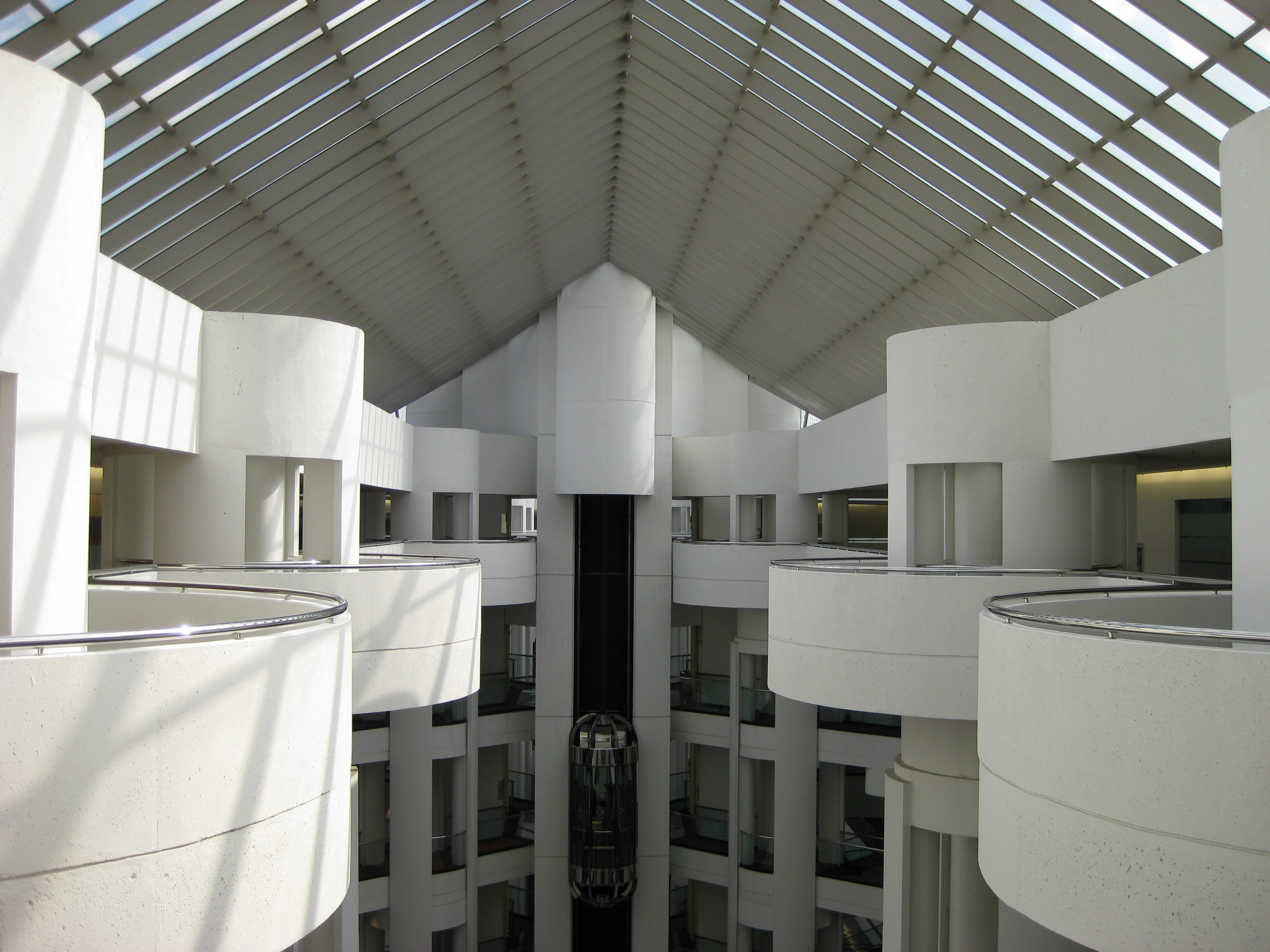 Photograph of the interior of American Cancer Society Center in Atlanta, Georgia taken from the sixth floor by Matthew R. Lee on March 18, 2008. Matthew R. Lee| (talk|) 21:35, 16 February 2009 (UTC) Category:Images of Atlanta Summary Photograph of the interior of American Cancer Society Center in Atlanta, Georgia taken from the sixth floor by Matthew R. Lee on March 18, 2008. Matthew R. Lee (talk) 21:35, 16 February 2009 (UTC)